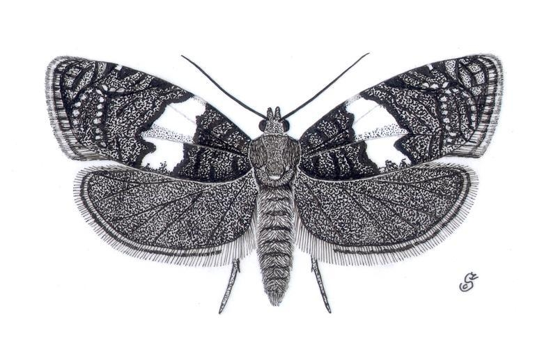 Olindia schumacherana